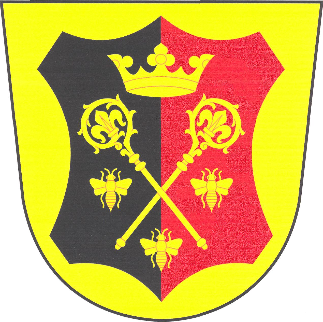 Coat of amrs of Lešetice , District Příbram, Czech Republic